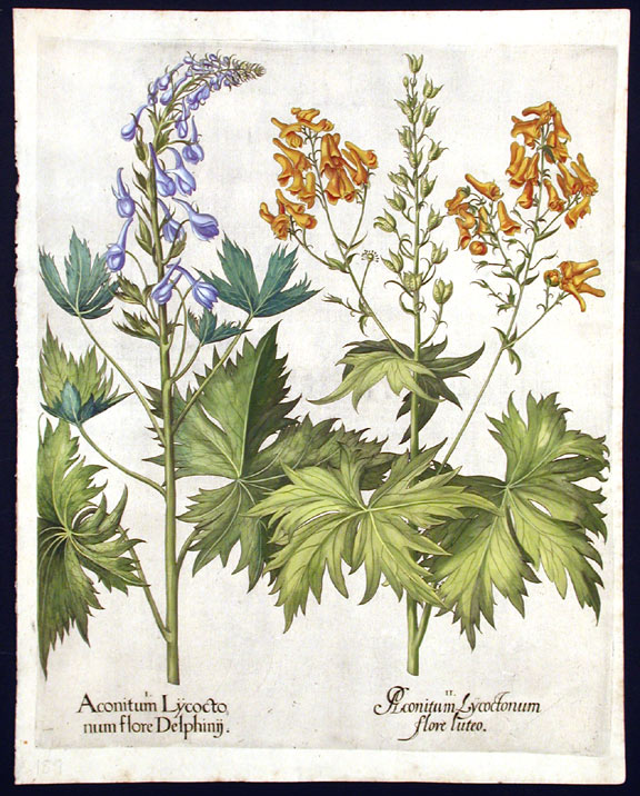 Aconitum Lycoctonum flore Delphinii [Wild delphinium]; Aconitum Lycoctonum flore luteo [Wolfsbane] Eichstätt: 1640, 2nd edition. Hand-coloured engraving. Sheet size: 20 3/4 x 16 1/4 inches.